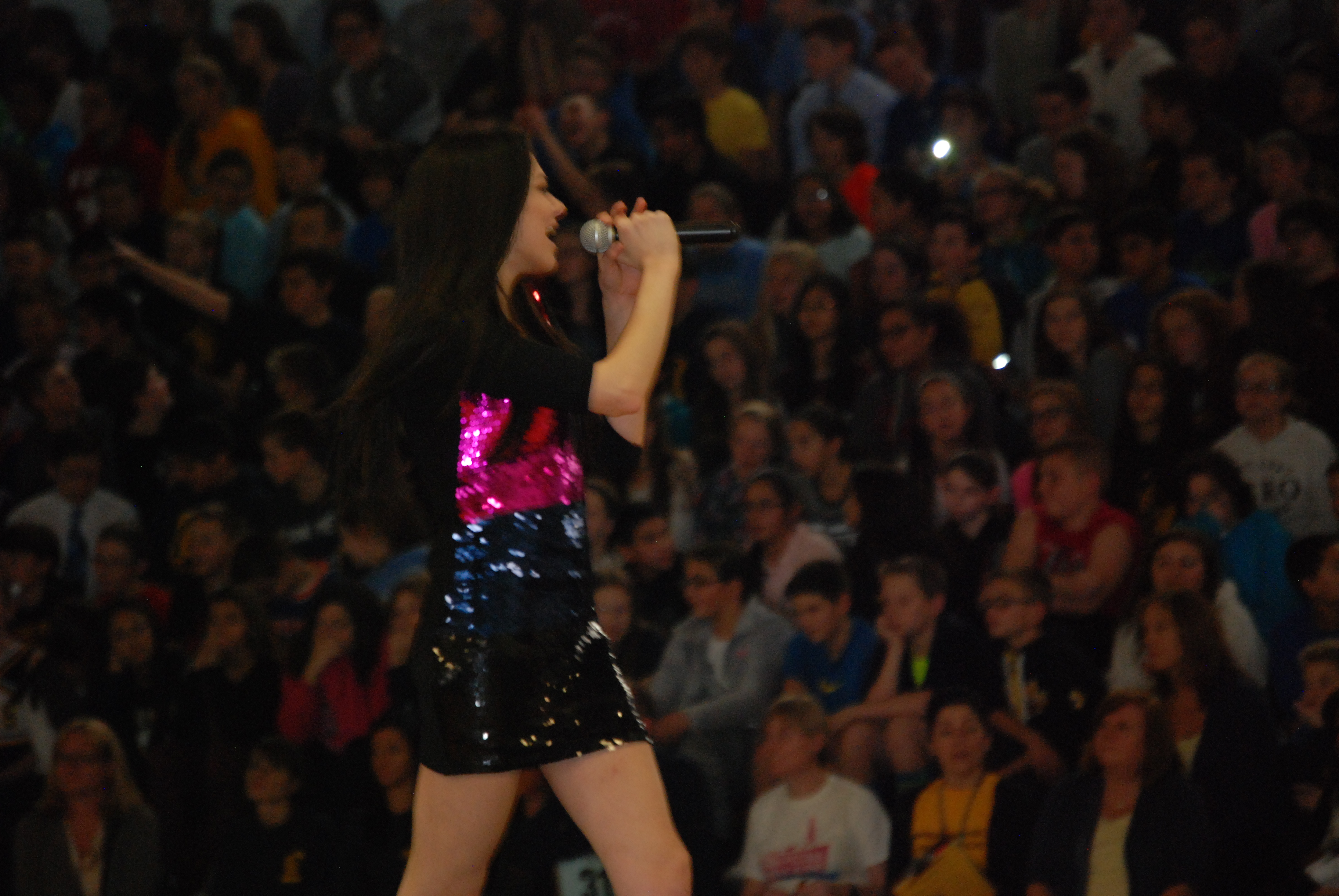 Photo of Meredith O'Connor in Concert on Long Island